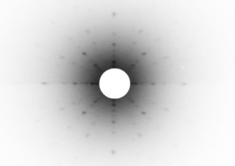 Backscattering Laue picture of a cubic crystal along the 100 direction